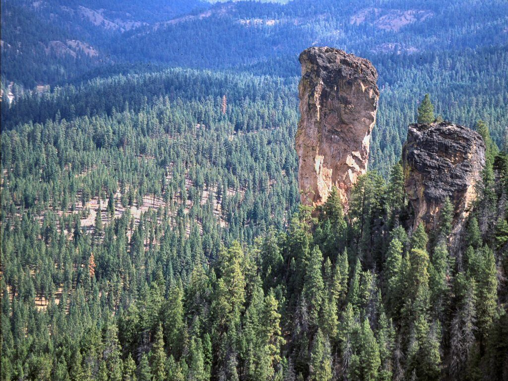 Steins Pillar in the Ochoco National Forest in central Oregon. This is a natural column of the volcanic rock type called ignimbrite, also known as welded tuff, of andesitic composition, that was deposited by pyroclastic flows from a nearby volcano in Oligocene times. (Reference for volcanic details: Waters, A.C (1966) Stein's Pillar Area, Central Oregon, The Ore Bin, volume 28 number 8, August 1966, pages 137 to 144. Retrieved 2015-01-16.)